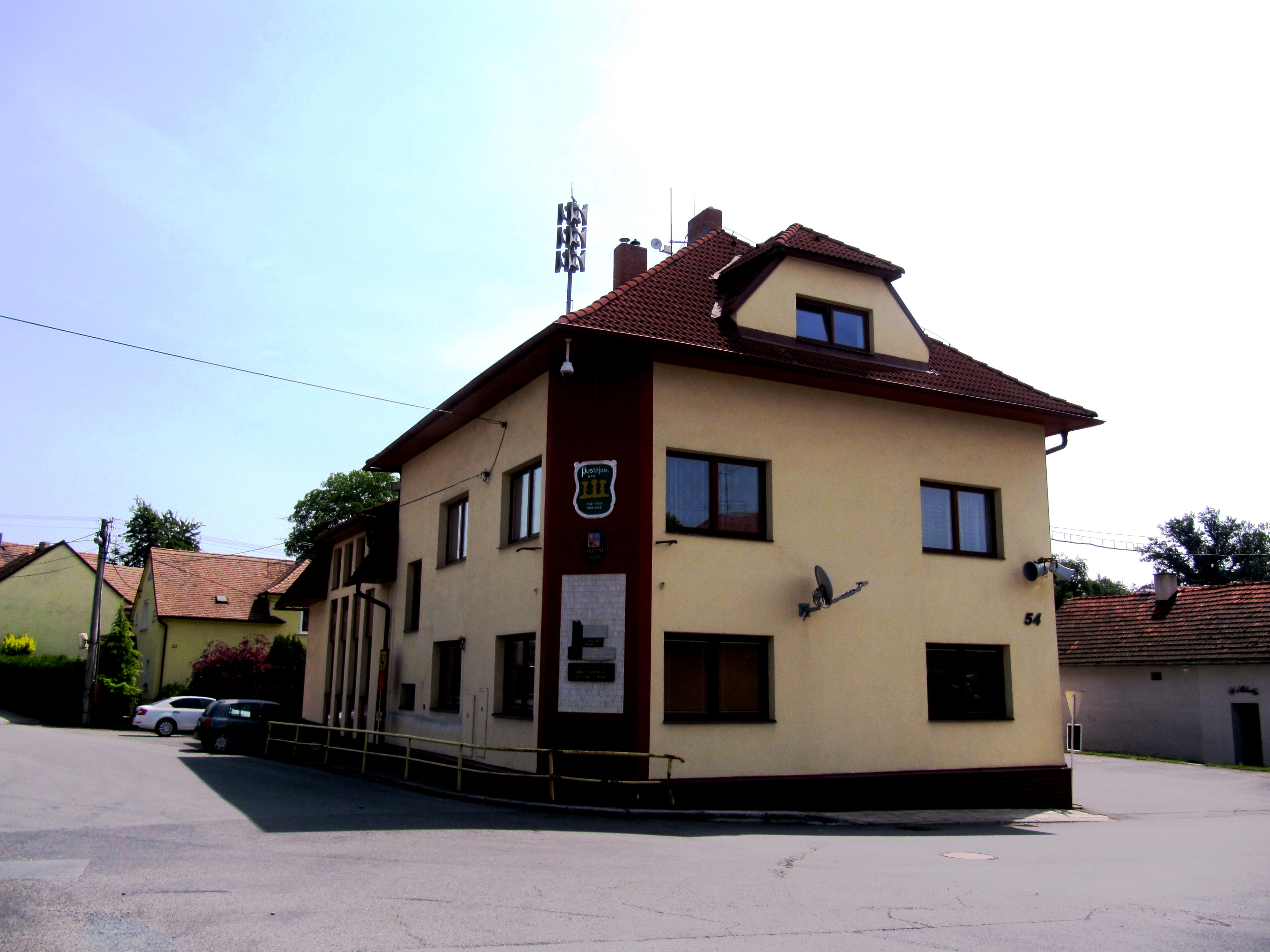 Pustějov, Nový Jičín District, Czech Republic.